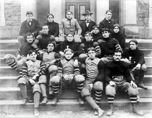 Photo of the 1896 Lafayette College football team from "The Lafayette", January 15, 1897 (The date on Page 1 actually reads January 15, 1896, but the newspaper recounts the 1896 football season, so someone obviously forgot to change the type at the beginning of the new year). This Lafayette team was named a co-national champion by its own coach, Parke H. Davis, more than 30 years later, when Davis was a renowned football historian.